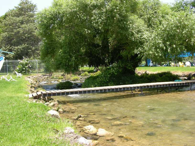 the Dan river within kibbutz Dafna